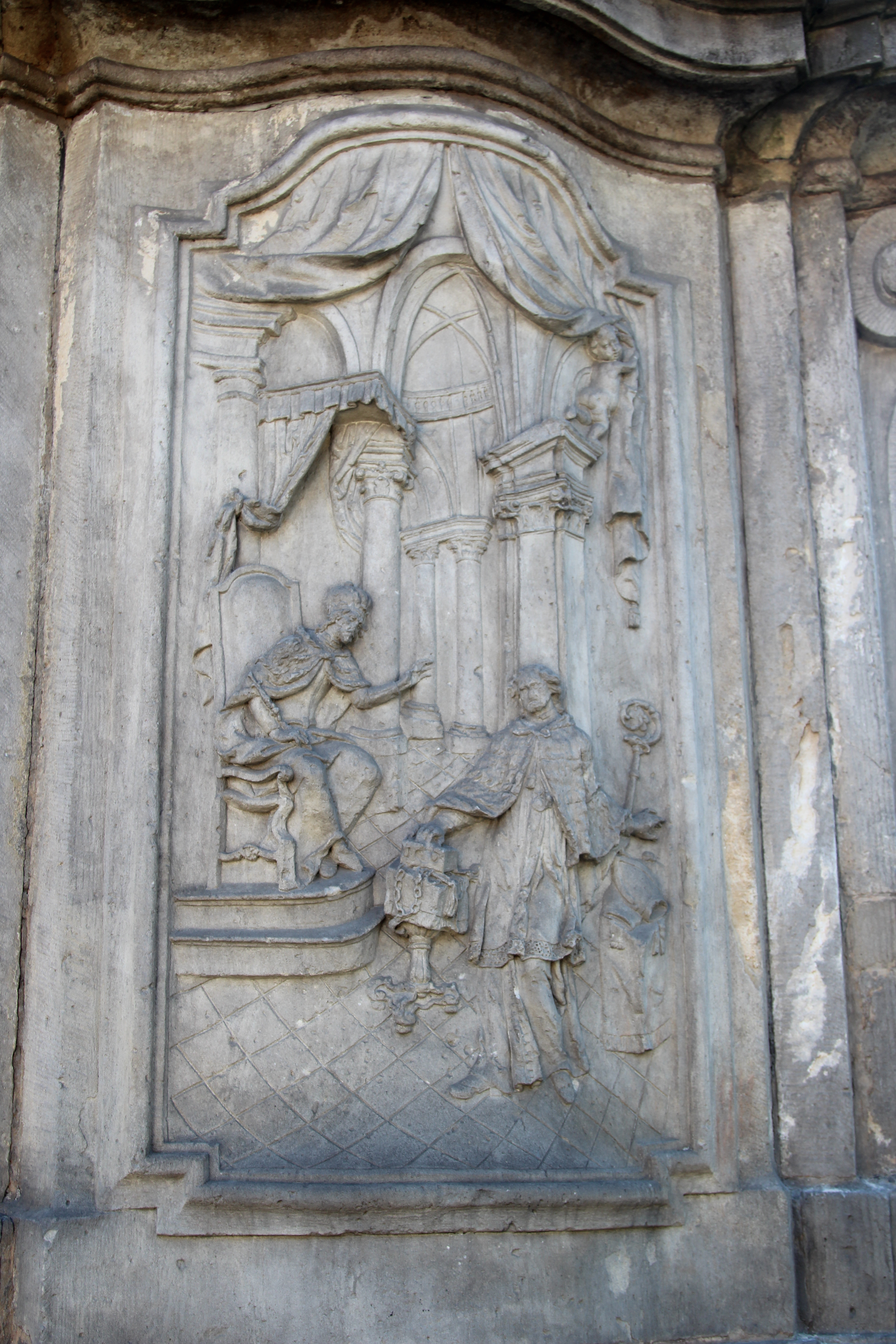 Relief from statue of Mary with Child and St. John of Nepomuk in front of Lesnica Castle.